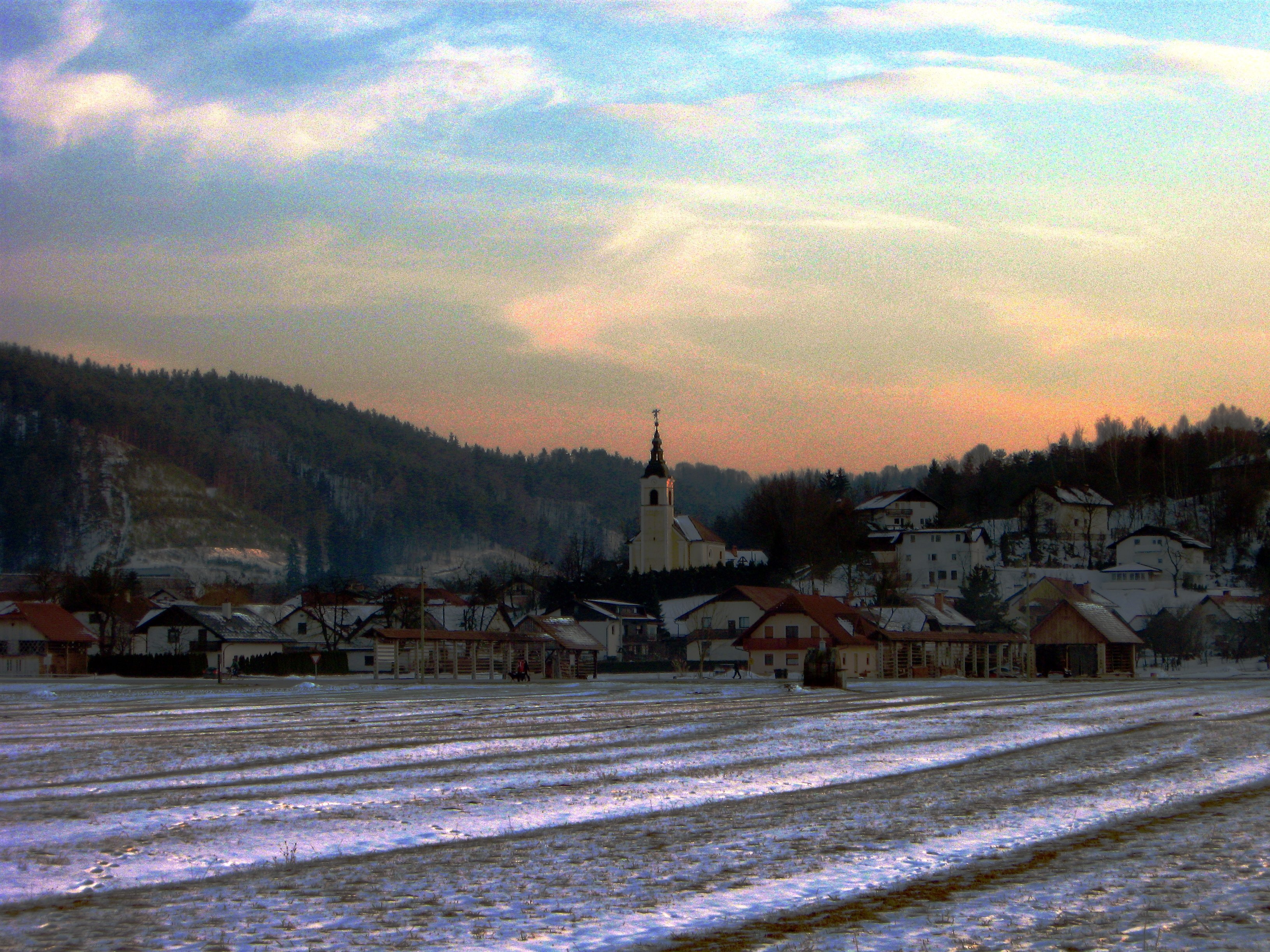 Village of Bizovik, near Ljubljana, Slovenia.